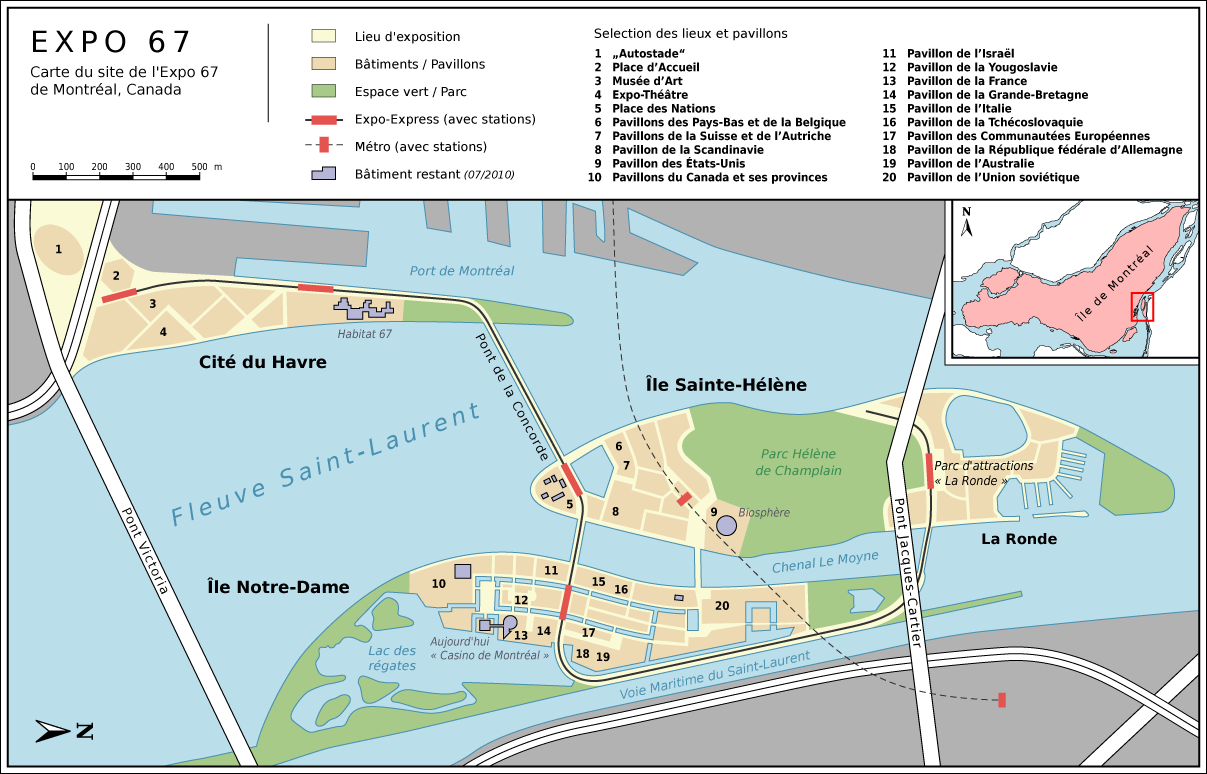 Map of Expo 67 in Montréal, Canada (French Version)